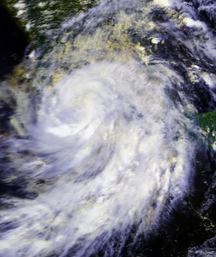 This image shows Hurricane Boris on June 29 at 1956 UTC. This image was produced from data from NOAA-14, provided by NOAA.